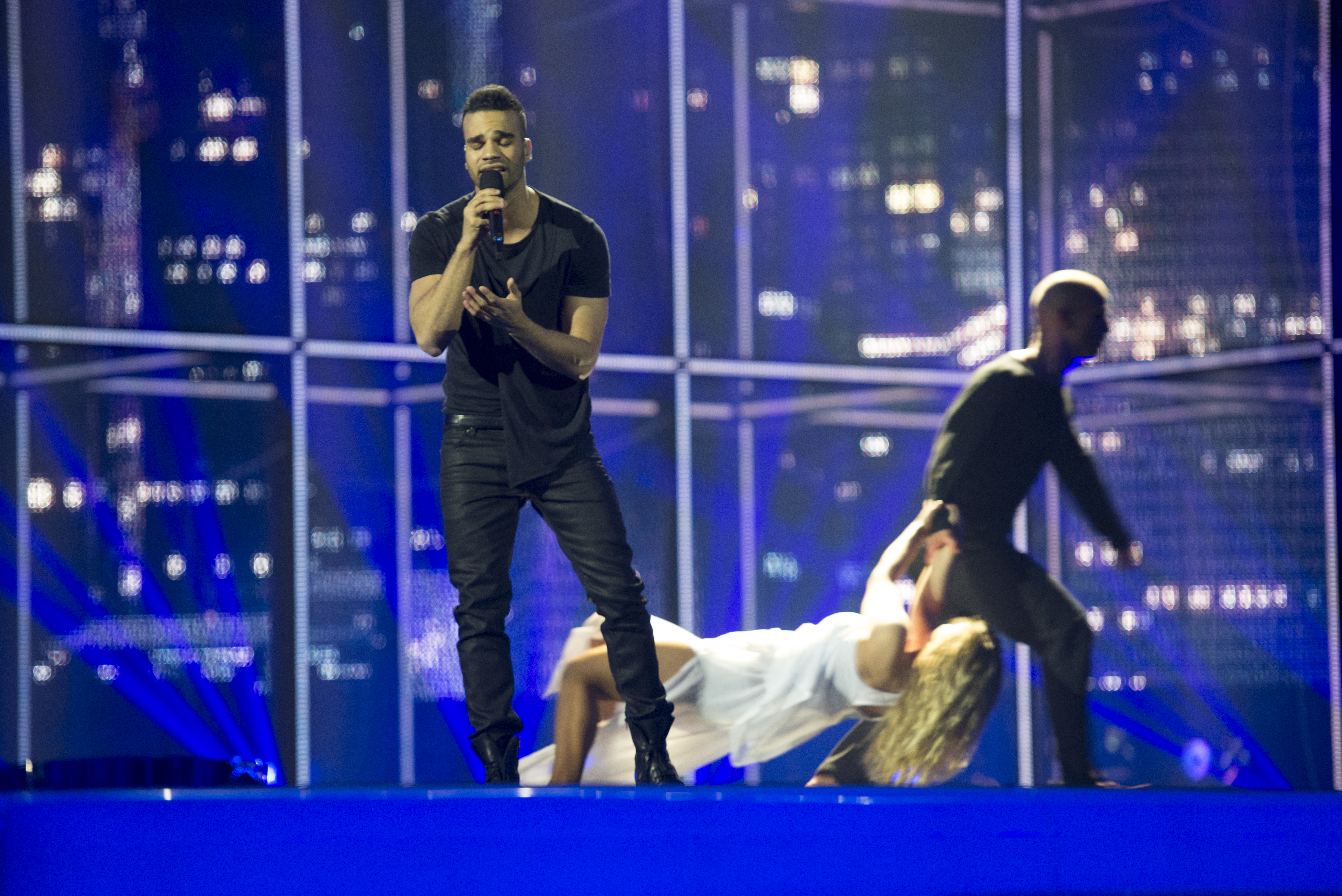 Kállay Saunders representing Hungary with the song "Running" during the first dress rehearsal of the first semi final of the Eurovision Song Contest 2014 Copenhagen. (Help translate this text)